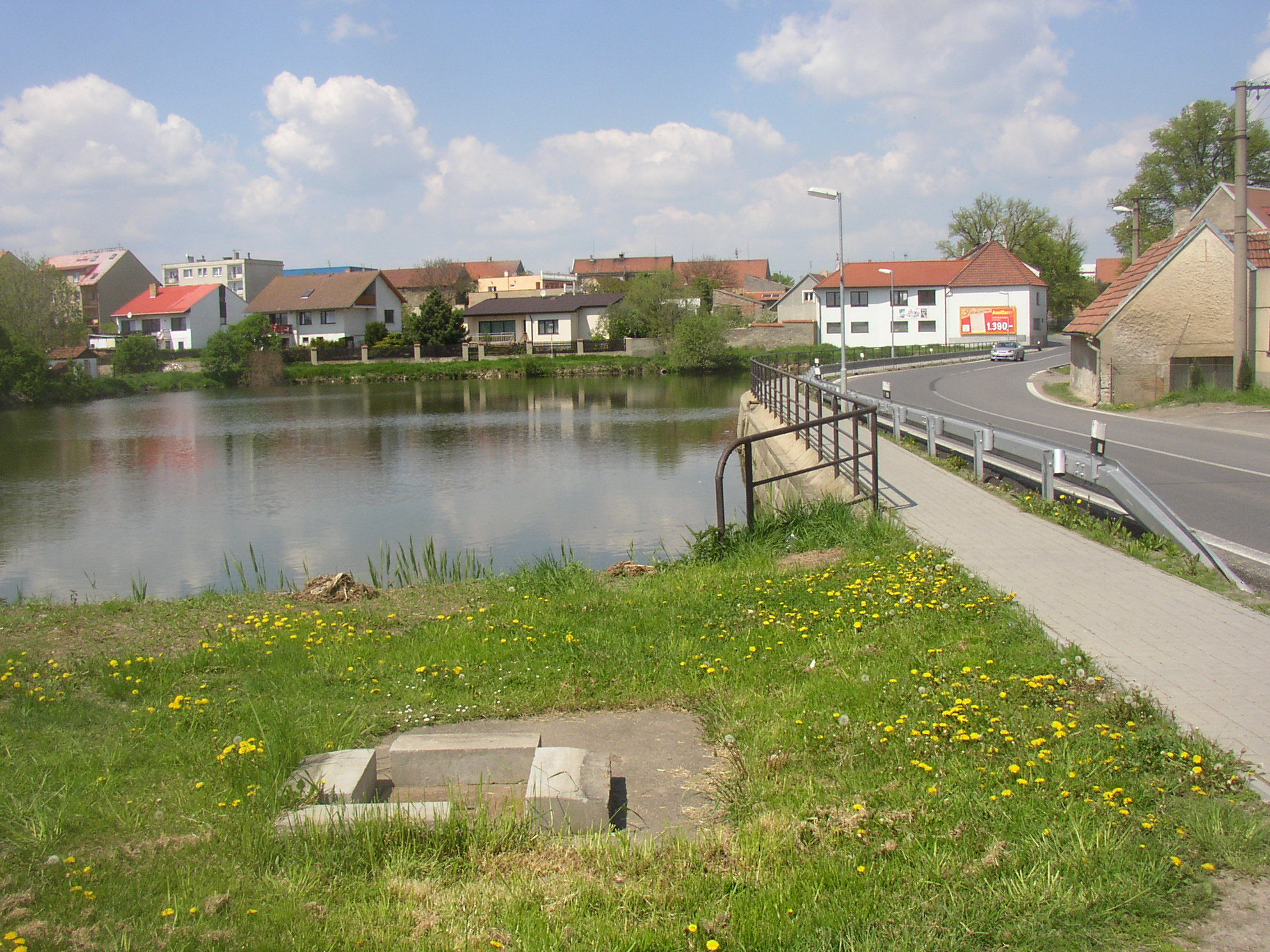 Velké Přítočno, Kladno District, Czech Republic. A pond besides thoroughfare.